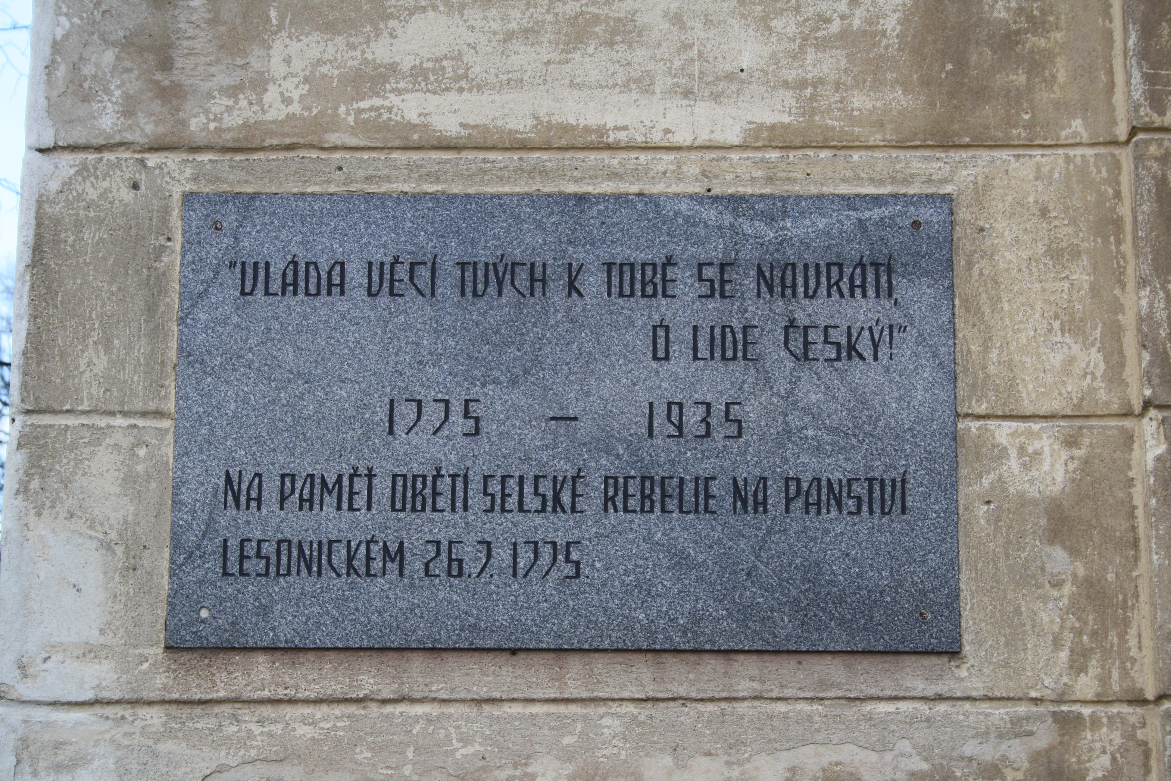 Plaque of victims villagers incurgence in Lesonice.